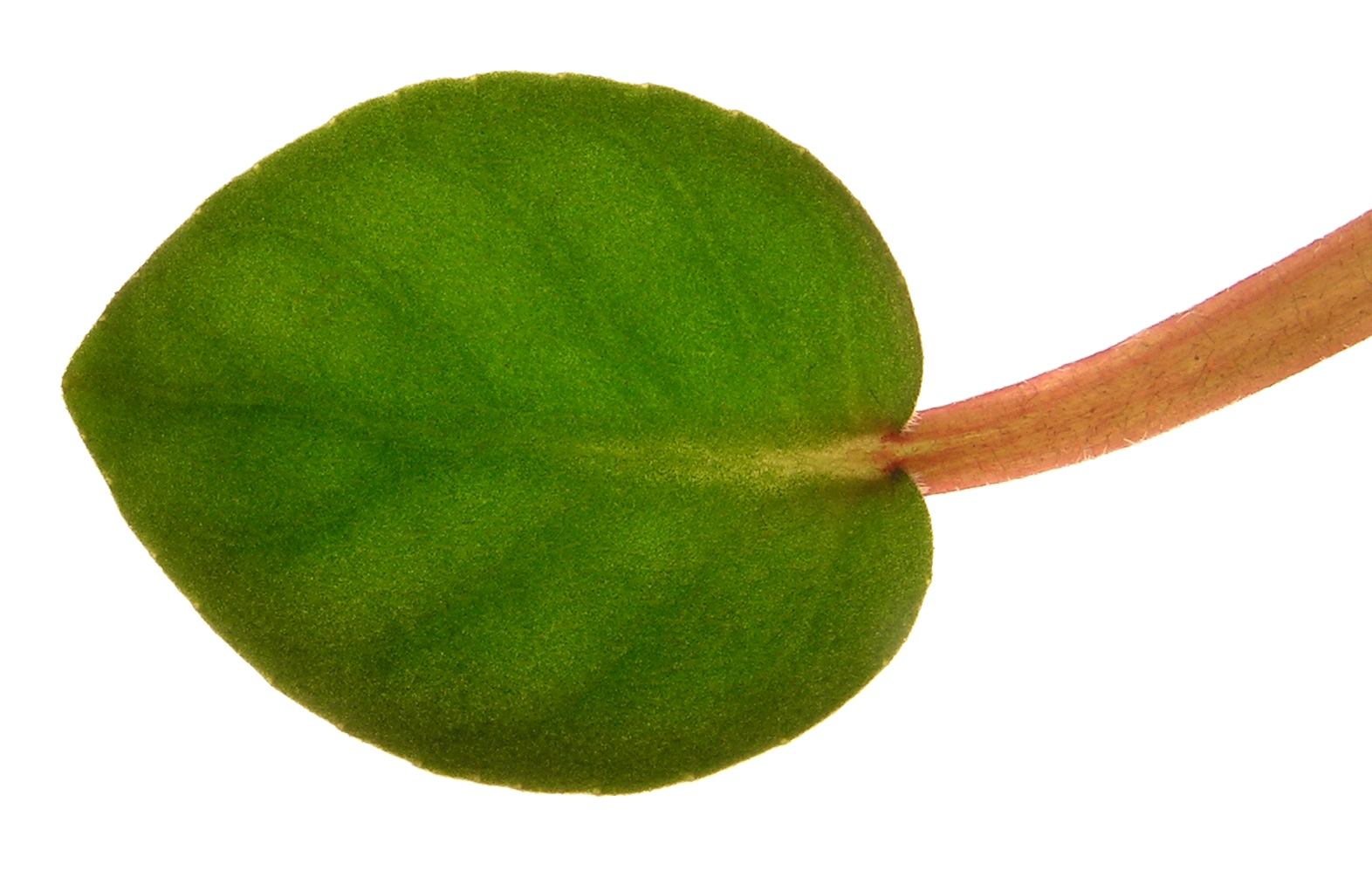 The leaf of the hybrid saintpaulia, a view from above